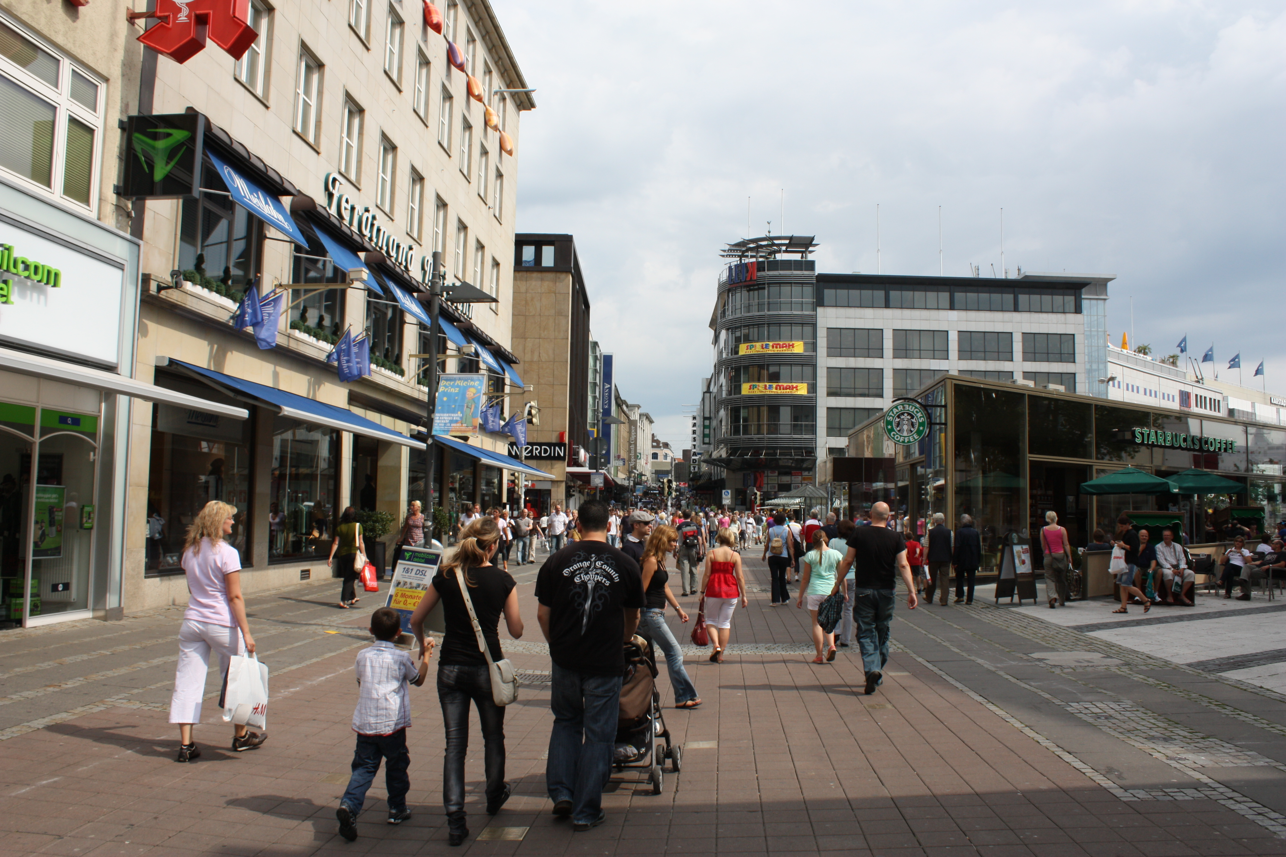 Holstenstraße (Holsten Street) Kiel, pedestrian precinct, view towards North and towards 'Berliner Platz' (Berlin Square) and 'Alter Markt' (Old Market)